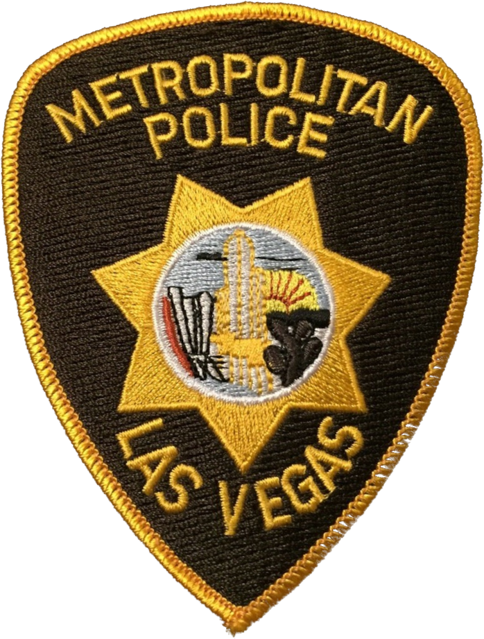 The LVMPD's patch, in use since at least the 1980s.